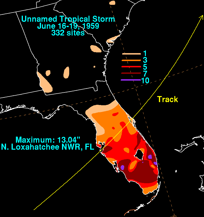 Storm total rainfall map of the Escuminac hurricane during June 1959.